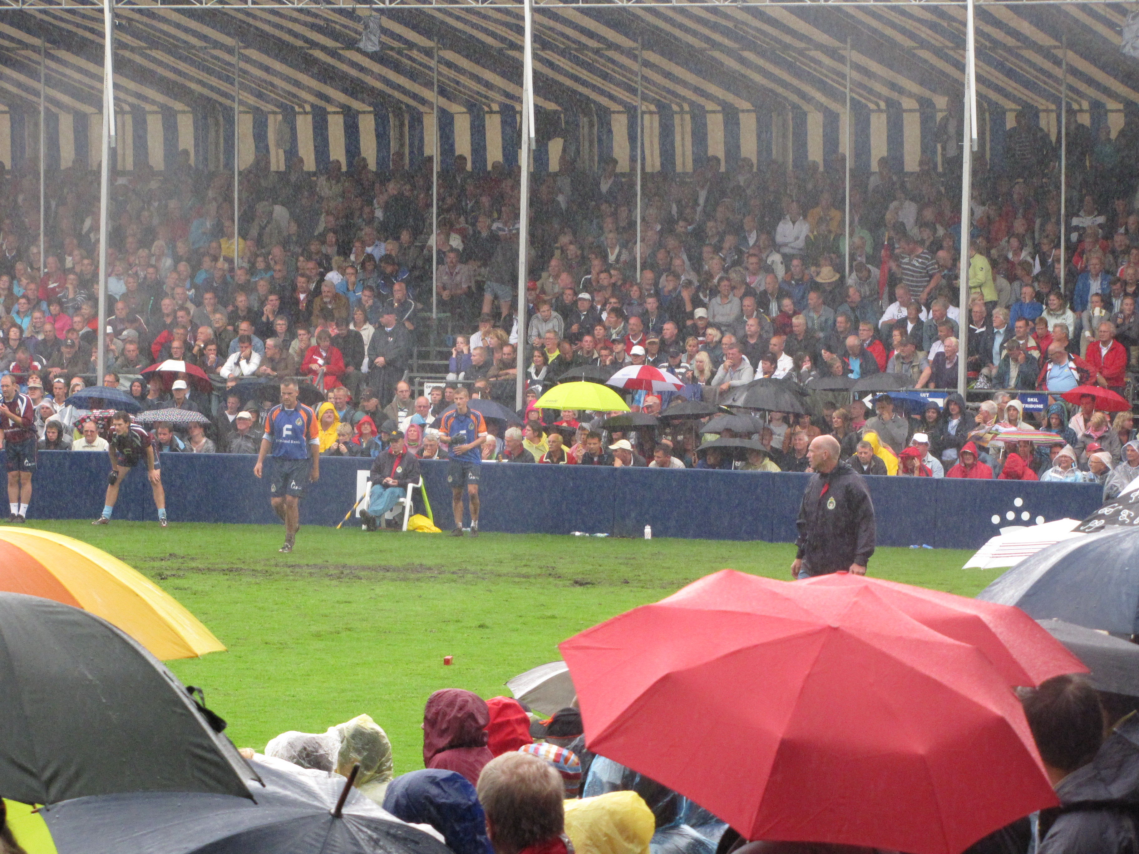 The PC of 2010 was dominated by the weather conditions, heavy rainfall influenced the game.